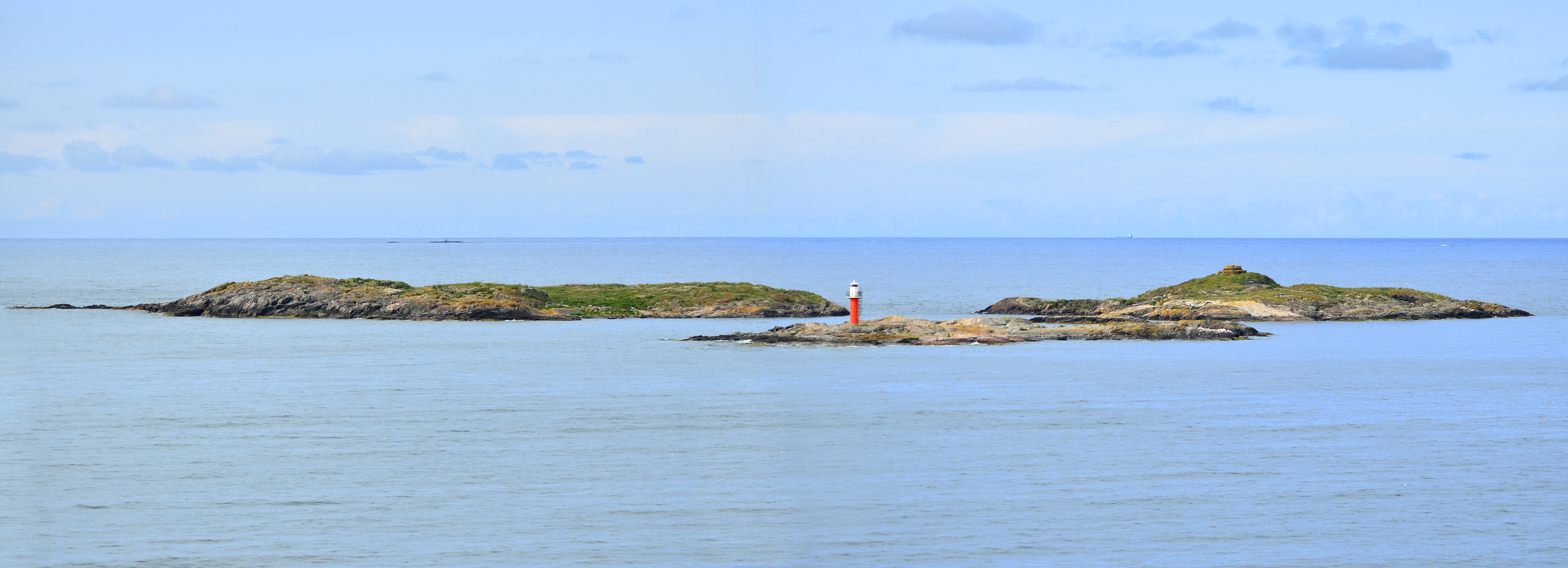 The islets Gunnarstenarna in Stockholm archipelago. From left to right; Söderskär, Hällorna (with lighthouse) and Altarskär (with observation bunker).